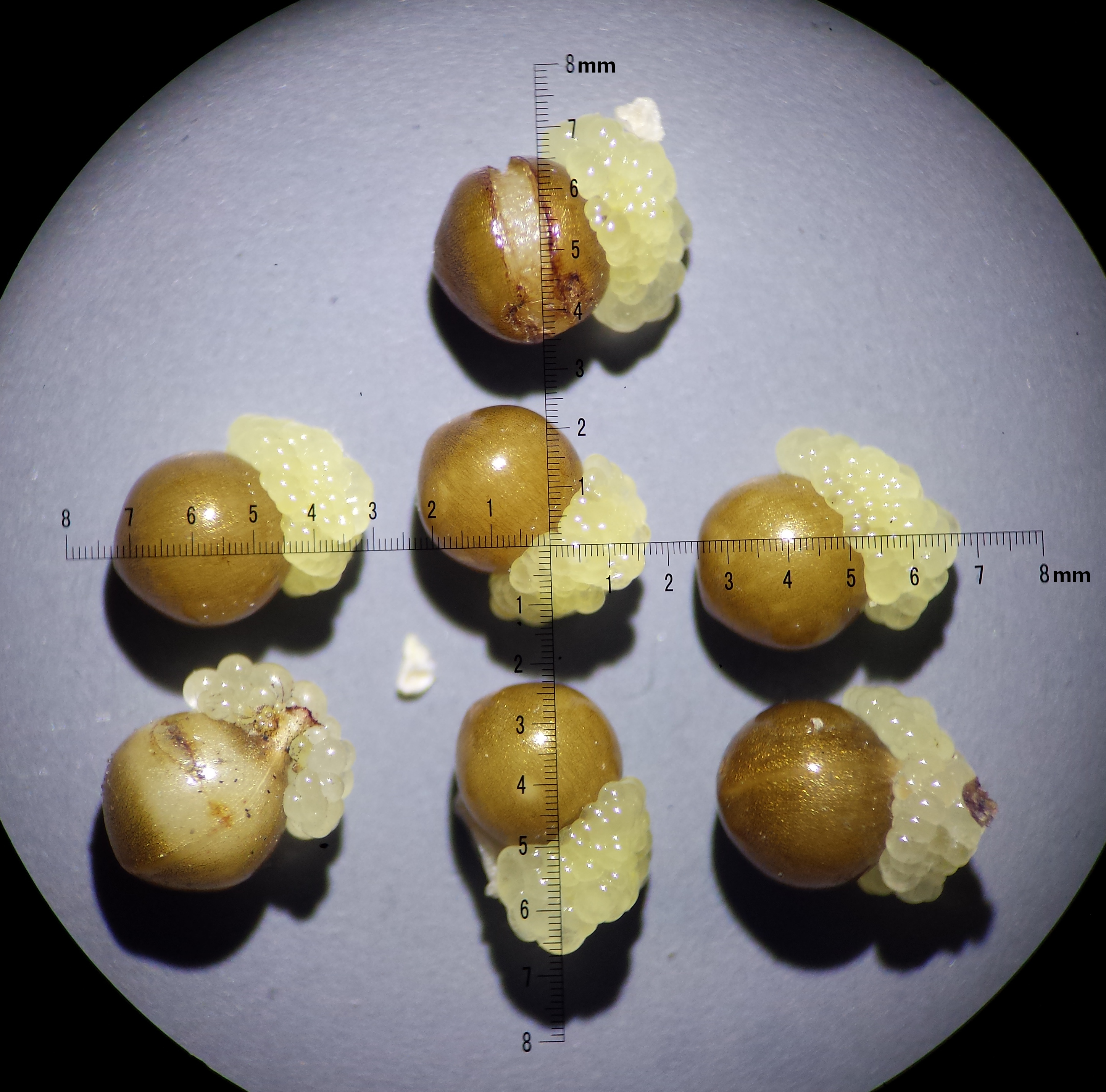 Seeds (from the very same fruit) Taxon: Scilla spetana (sensu Fischer et al. EfÖLS 2008 ISBN 978-3-85474-187-9) Location: Kreuttal, district Mistelbach, Lower Austria - ca. 210 m a.s.l. Habitat: border of a deciduous forest